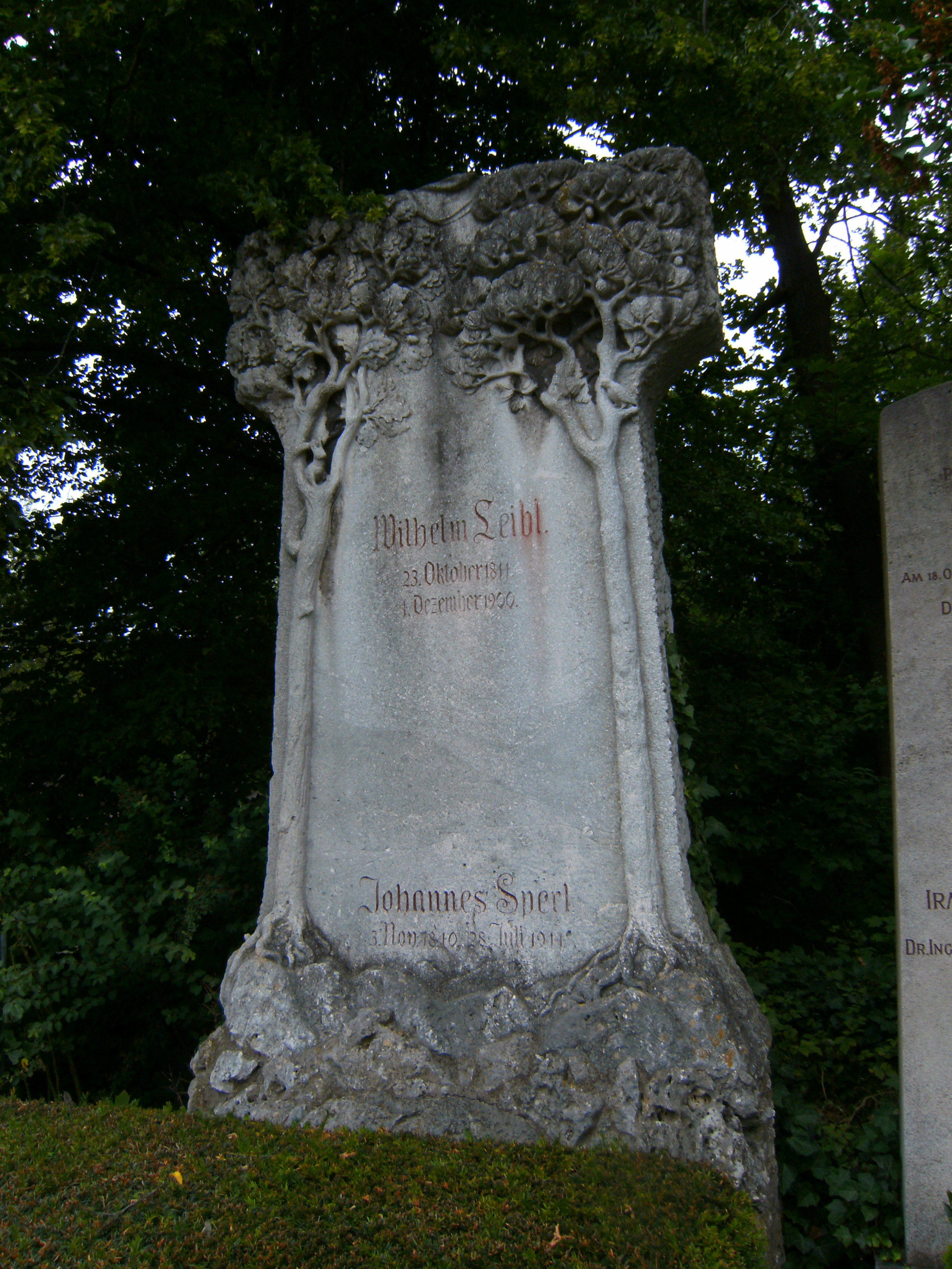 Main cemetery (Hauptfriedhof) in Würzburg, Germany, Martin-Luther-Straße 18: Gravestone for painter Wilhelm Leibl und Johann Sperl (Maler) in Abteilung 1, Feld 2, Nummer 29. Near entrance office (Verwaltung).